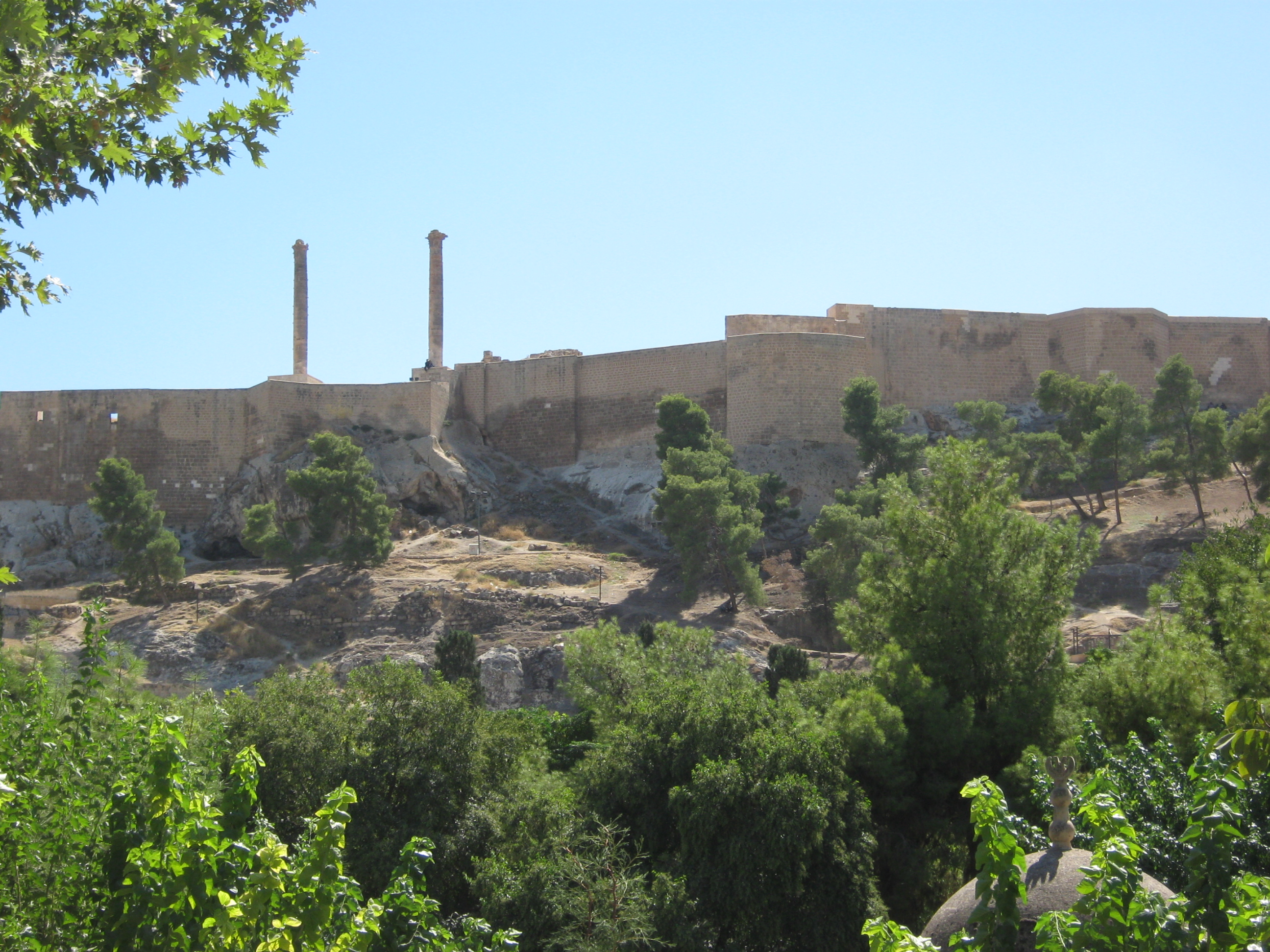 Urfa-castle